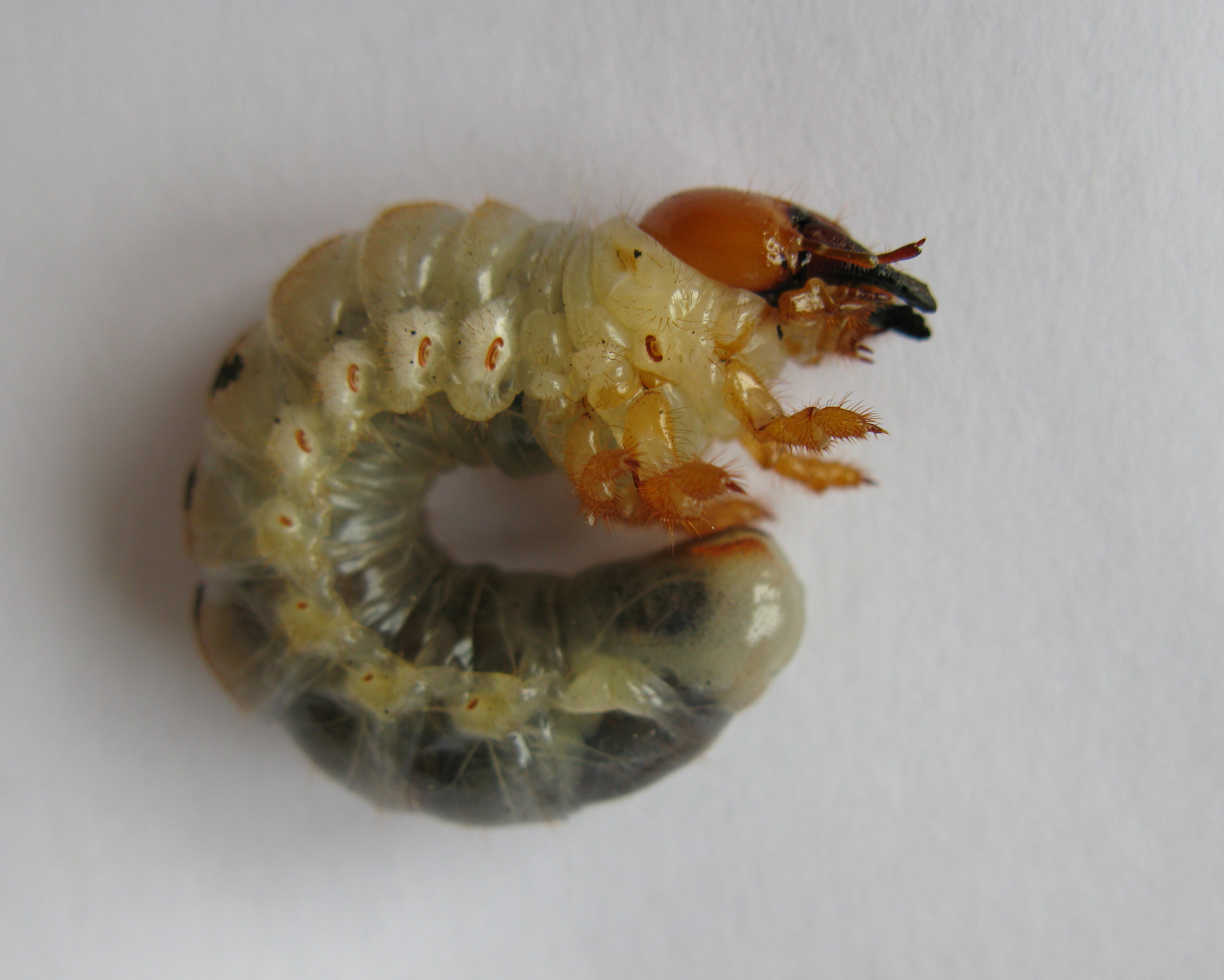 Lucanus cervus larva